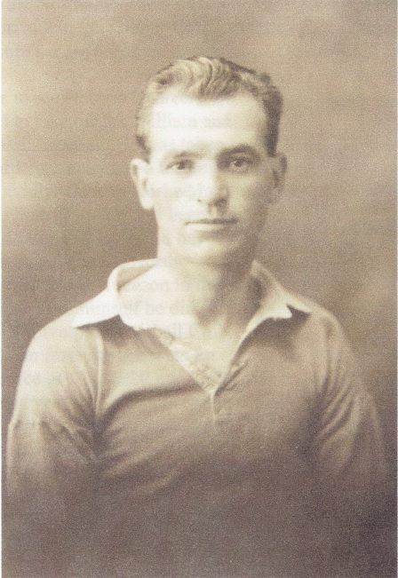 Team Picture